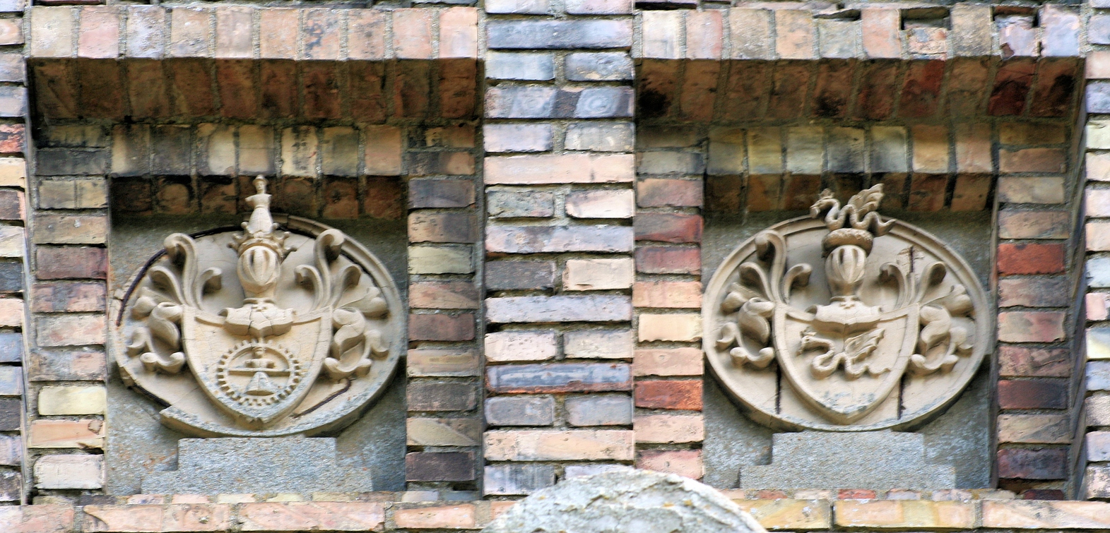 Coats of arms of XIX-century owners of Czerników estate